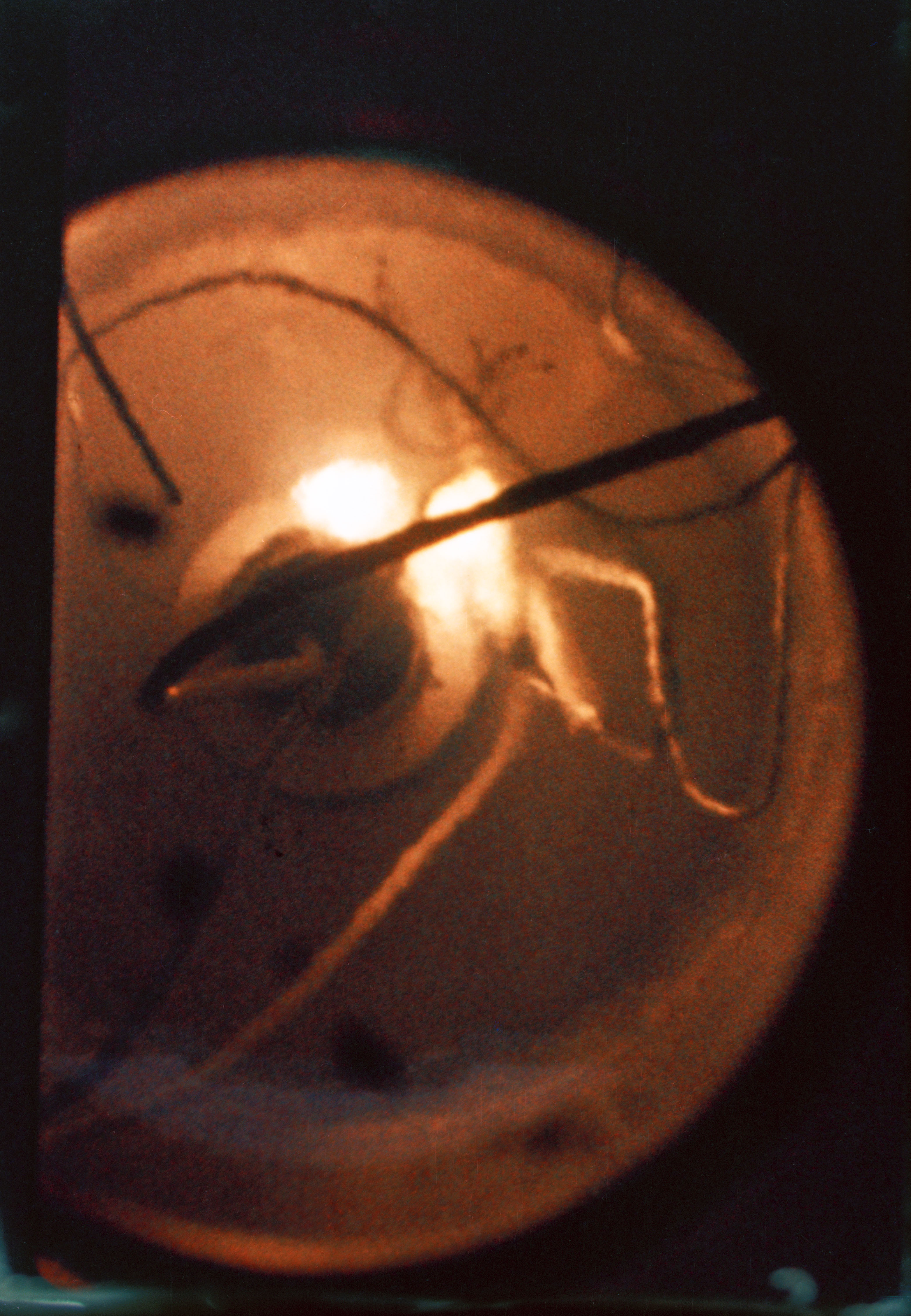 Postflight test at the NASA Manned Spacecraft Center (MSC) shows Teflon insulation burning in supercritical oxygen at Earth gravity.